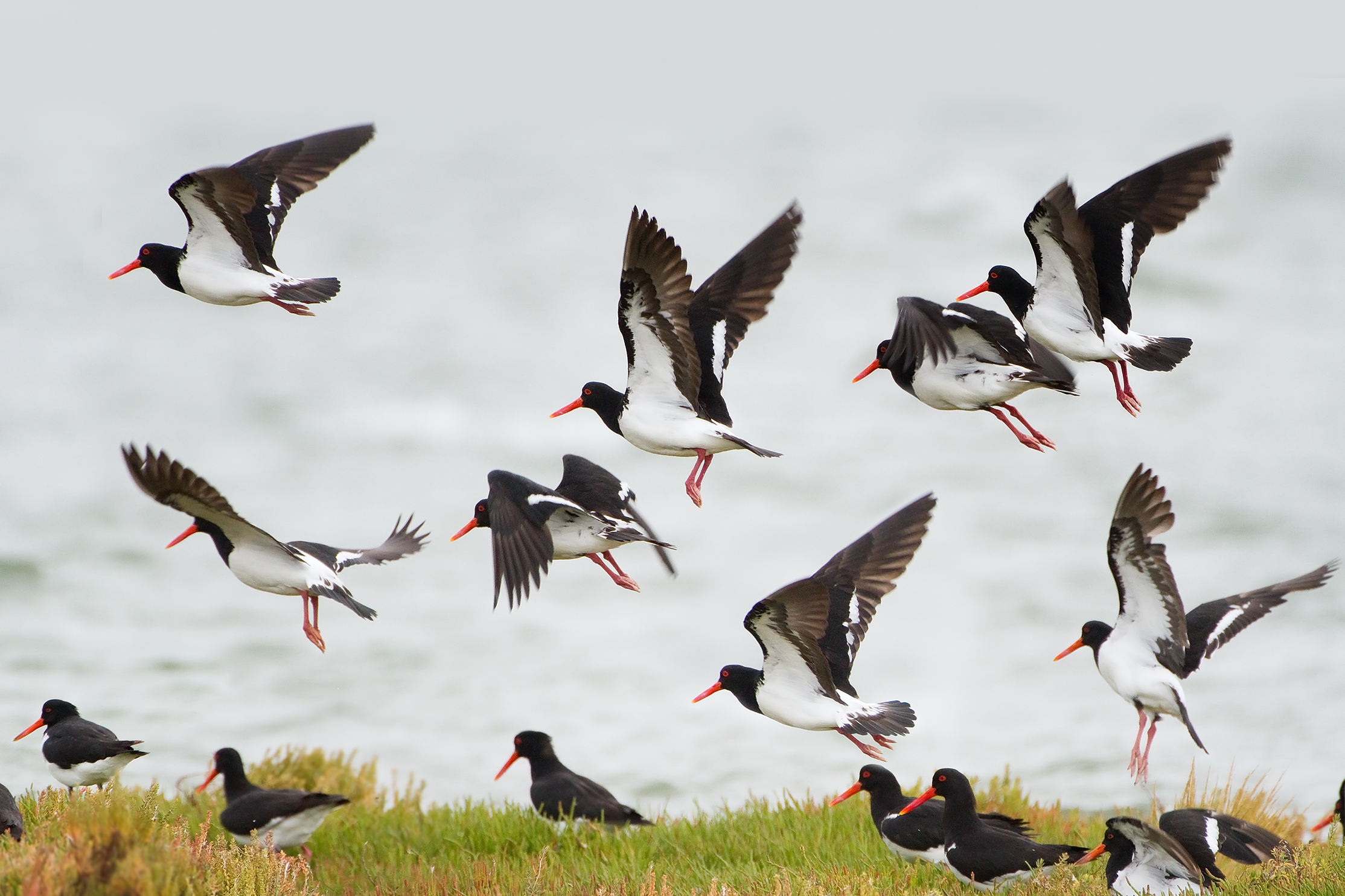 Pied Oystercatchers (Haematopus longirostris) taking off, Ralph's Bay, Lauderdale, Tasmania, Australia